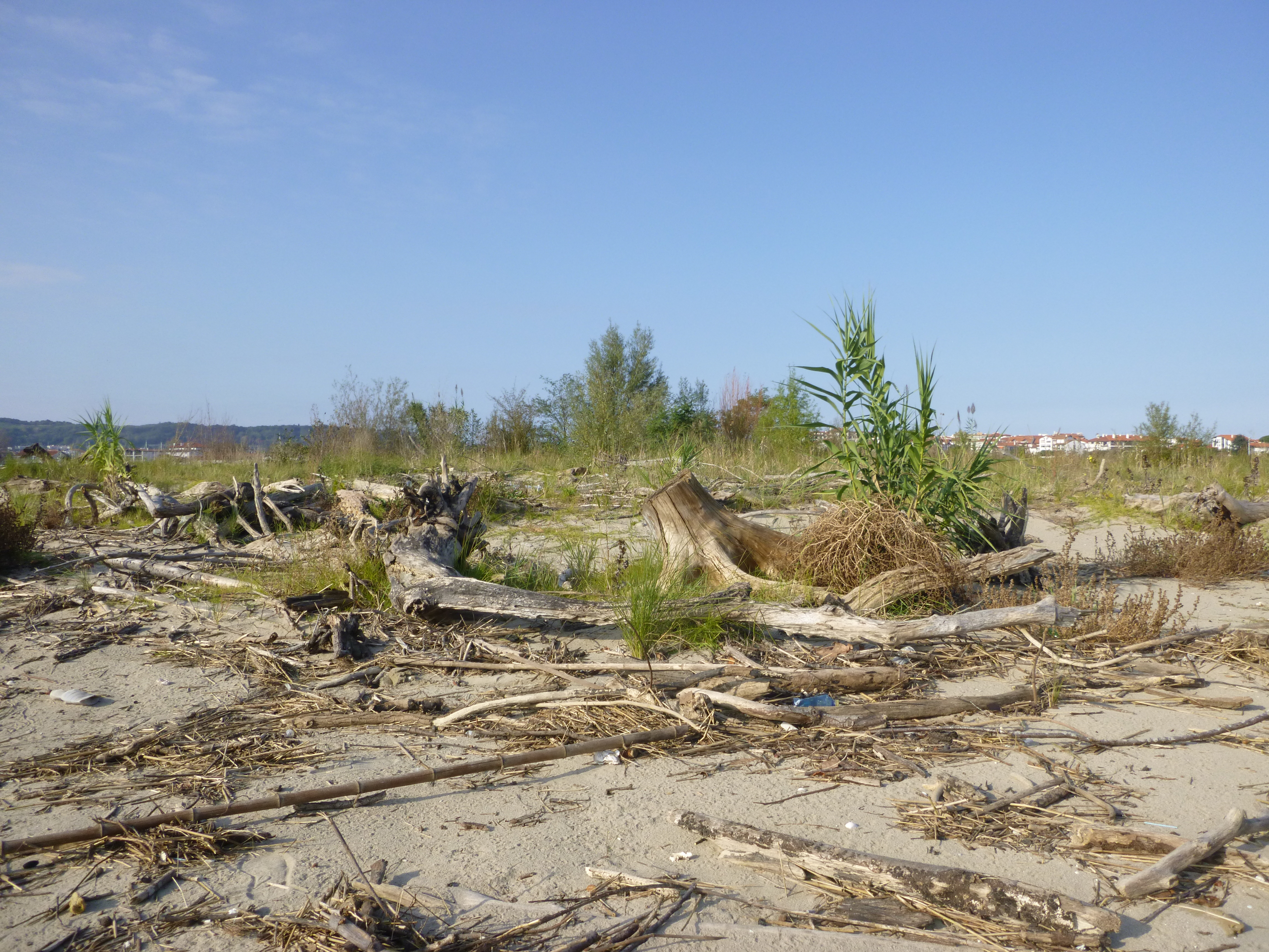 bird island